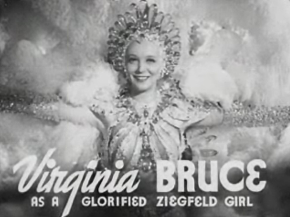 Cropped screenshot of Virginia Bruce from the trailer for The Great Ziegfeld